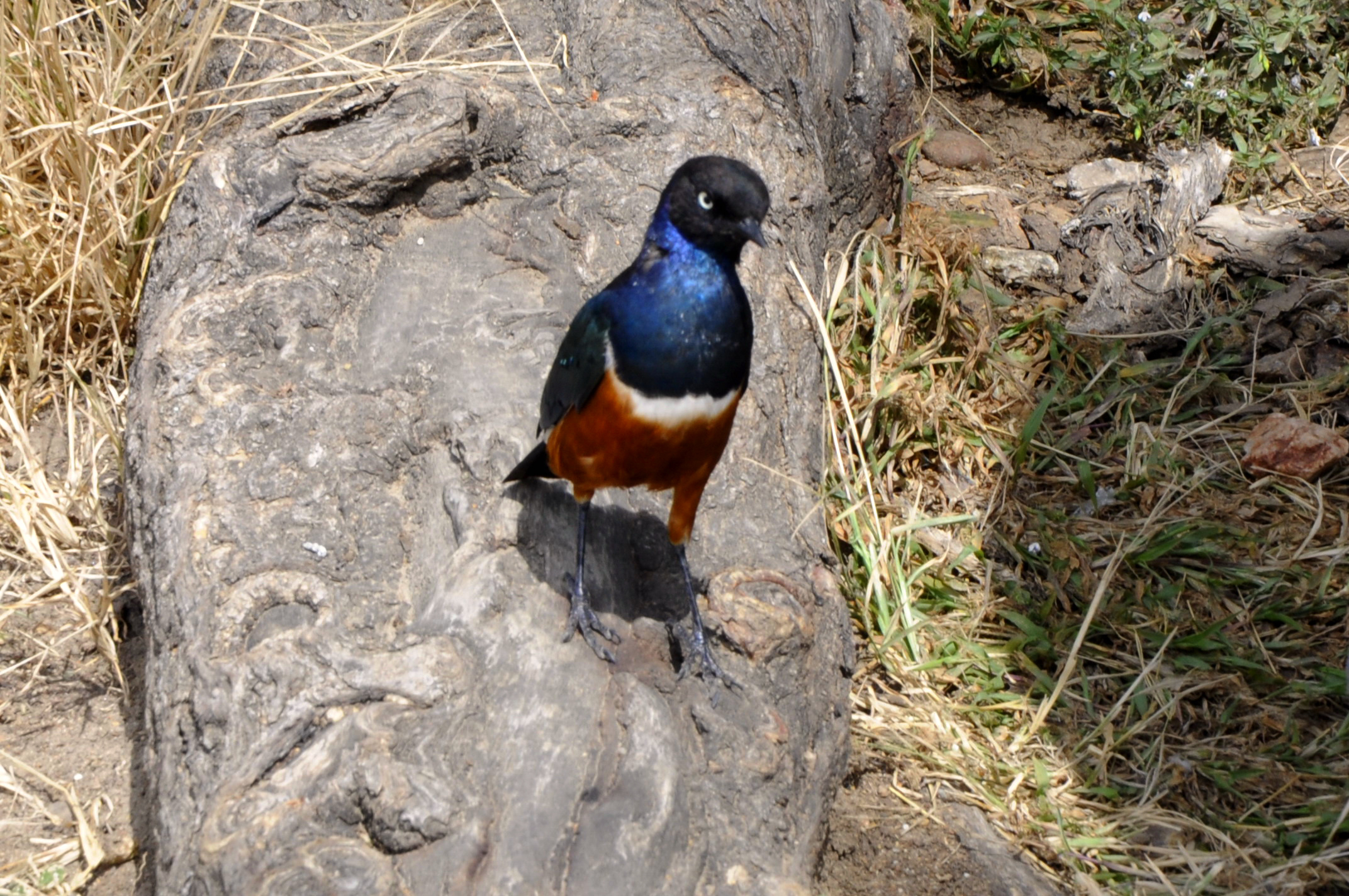 A Superb Starling Lamprotornis superbus in the Serengeti National Park